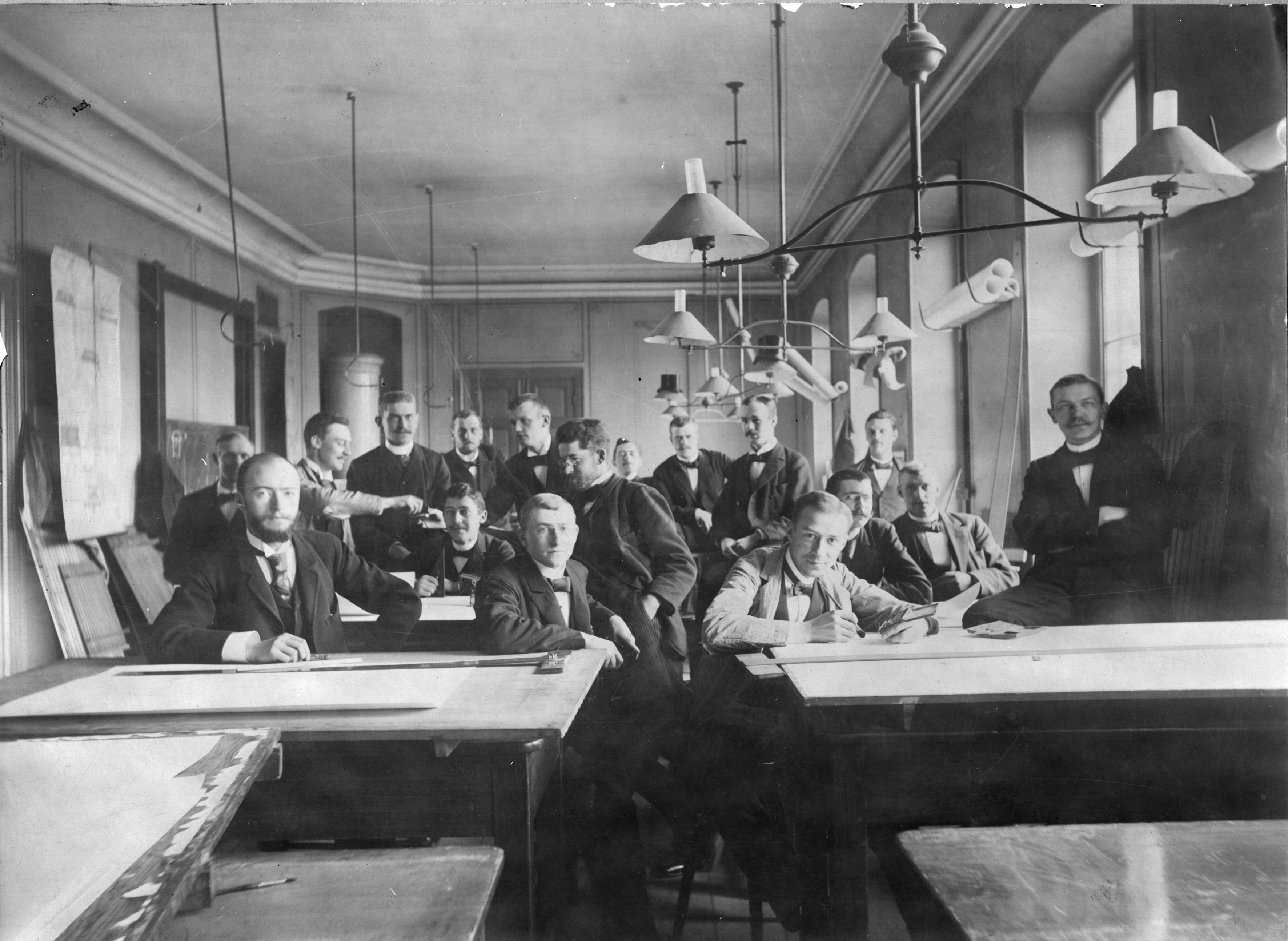 Elever i ritsalen på Kungliga Tekniska Högskolan 1891.